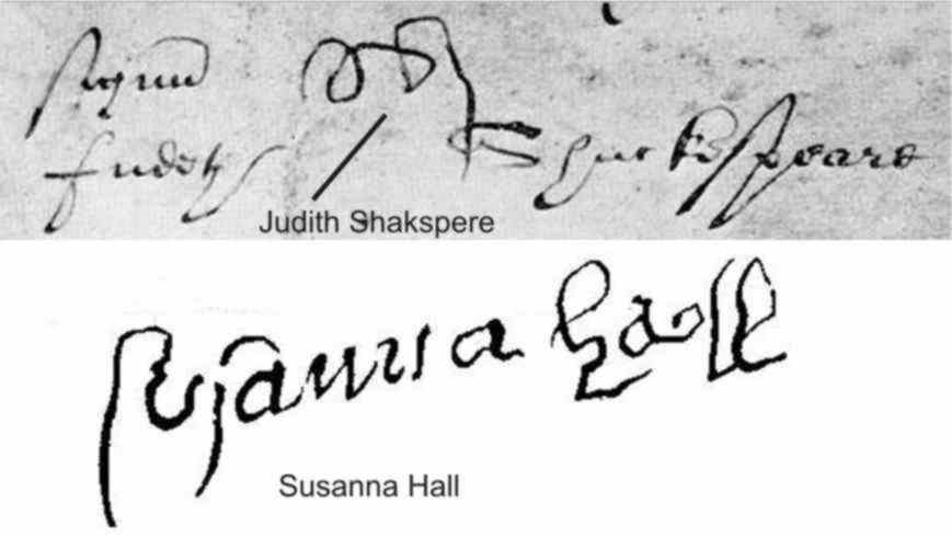 Signatures of Shakspere's daughters Judith (pigtail mark) and Susanna